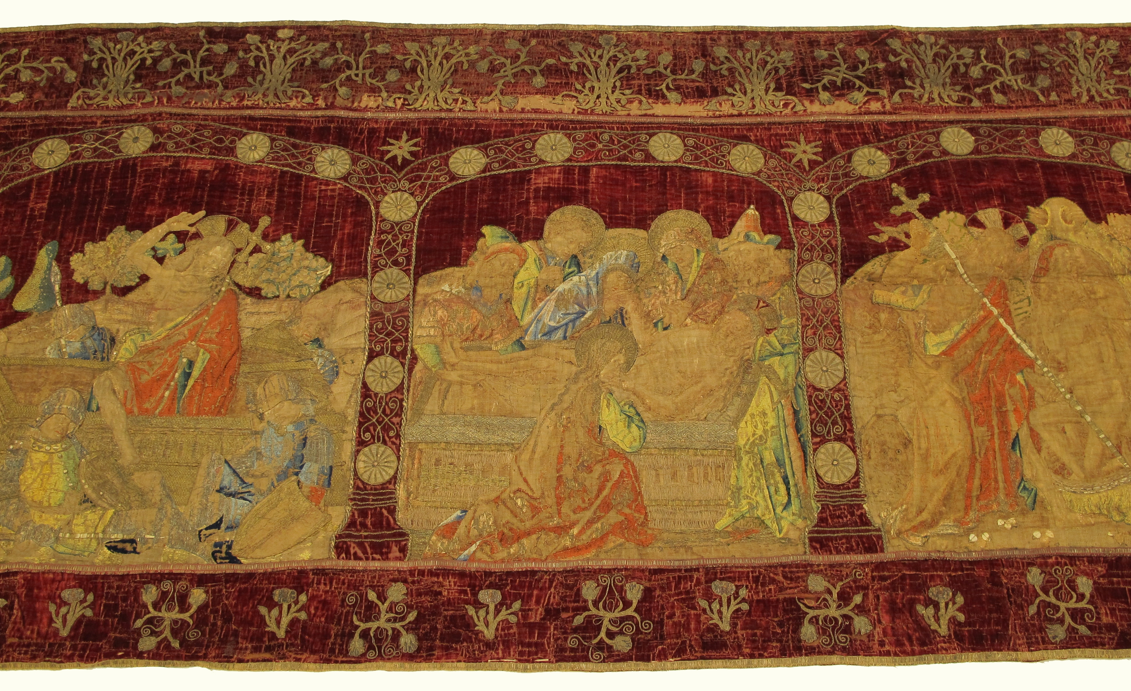 French or Italian; Altar frontal; Textiles-Woven